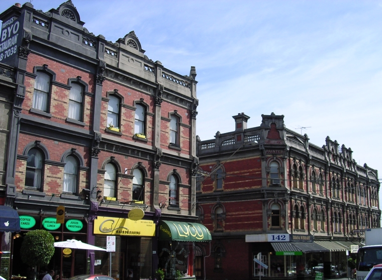 Victorian shopfronts in Auburn Road, Auburn. Victoria, Australia.